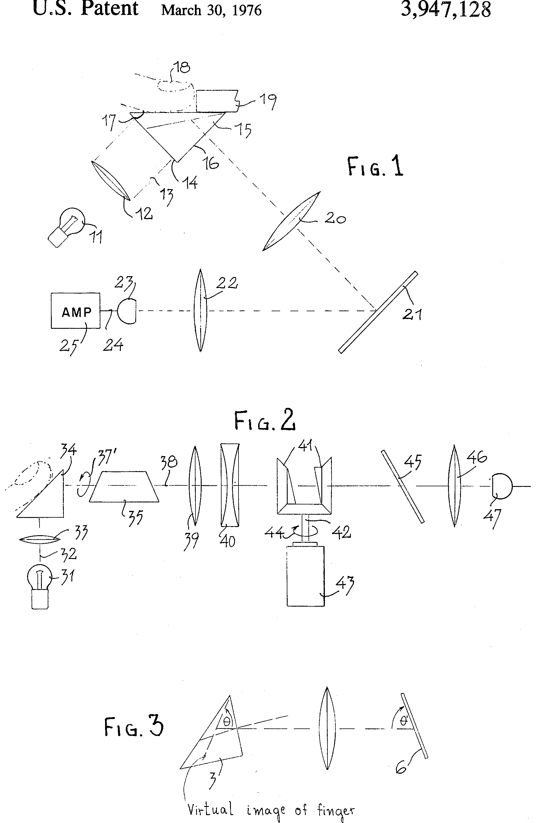 Pattern comparison.